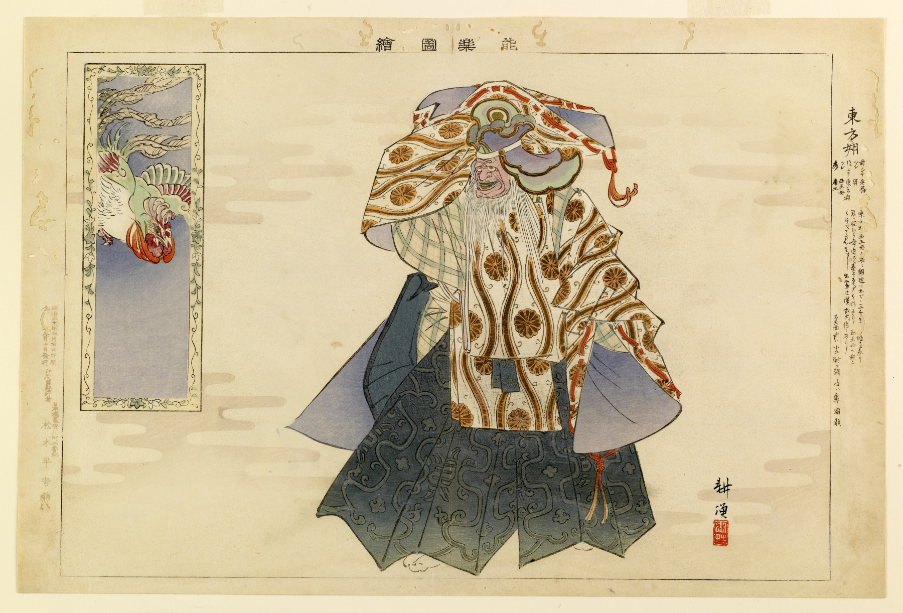 As Tobosaku dances in his voluminous court robes, the chorus in this play relates an ancient Chinese legend. When the Queen Mother of the West visited the court of Emperor Wu Ti, she brought ten peaches, each of which would bring three thousand years of life to the eater. Tobosaku (Tung Fang-so in Chinese) stole three peaches and ate them, thus attaining virtual immortality. The actor playing Tobosaku wears the mask of a happy old man. At left is a hanging scroll depicting a descending phoenix-an emblem of imperial authority as well as a vehicle for immortals.